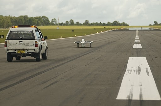 Sunswift IV LSR